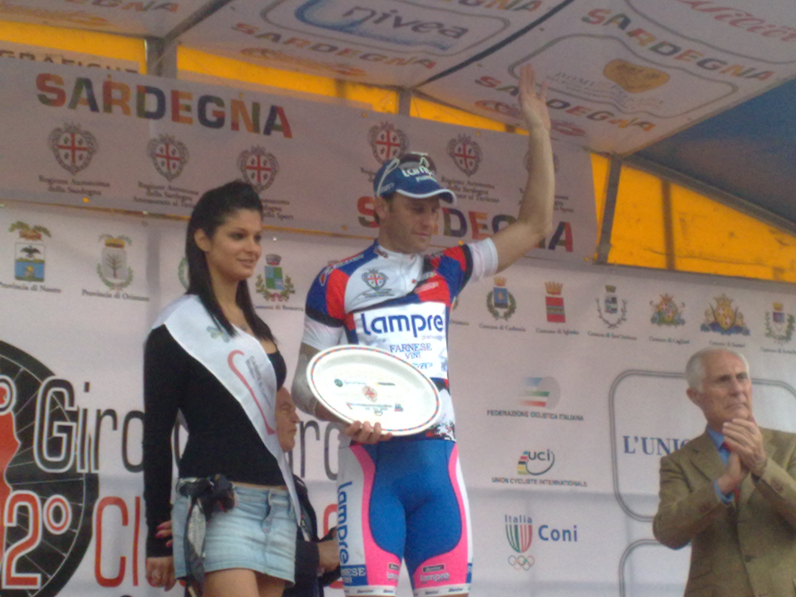 Podium of the checkered redblue shirt of the Tour of Sardinia (cycling)